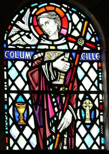 Stained glass window in Iona Abbey. This is the Christian saint Columba in stained glass form. He was born in Ireland and helped spread Christianity in Great Britain, especially in the Kingdom of the Picts.